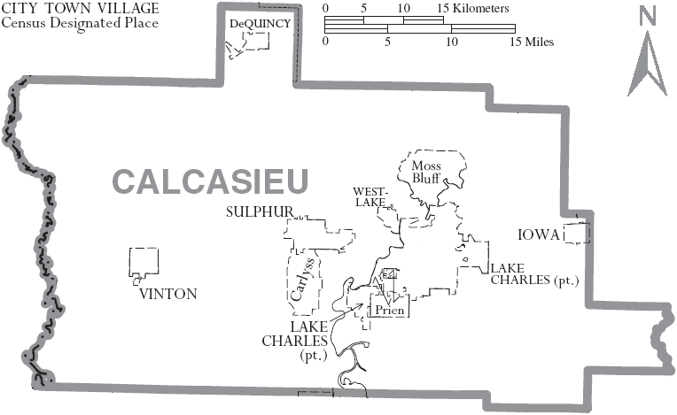 Map of Calcasieu Parish, Louisiana, United States with municipal boundaries